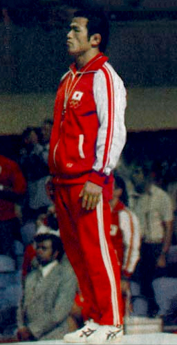 74 kg freestyle podium at the 1976 Olympics, Jiichiro Date